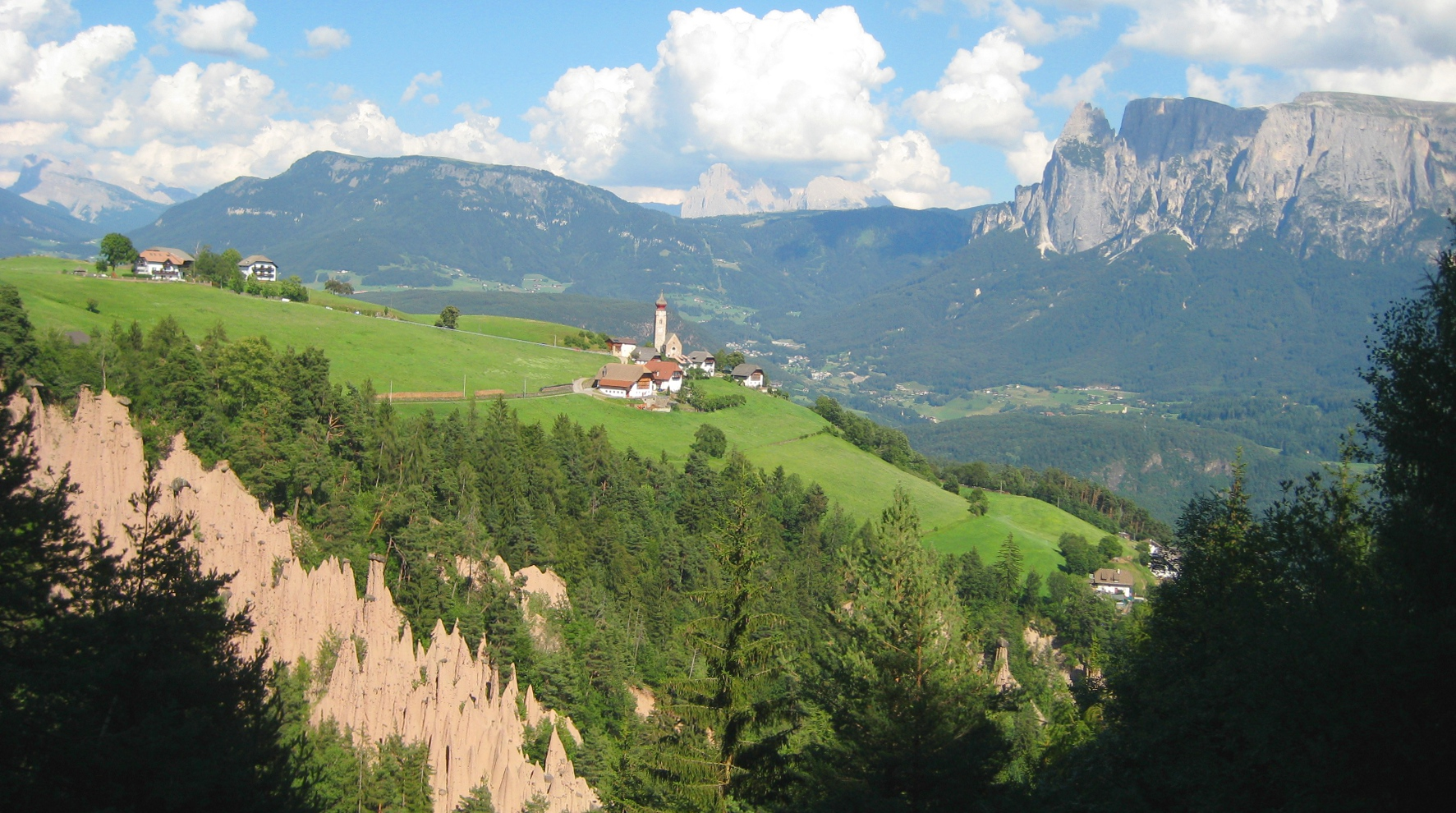 Mittelberg on Ritten - Monte di Mezzo / Renon